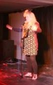 crop of Roisin Conaty onstage